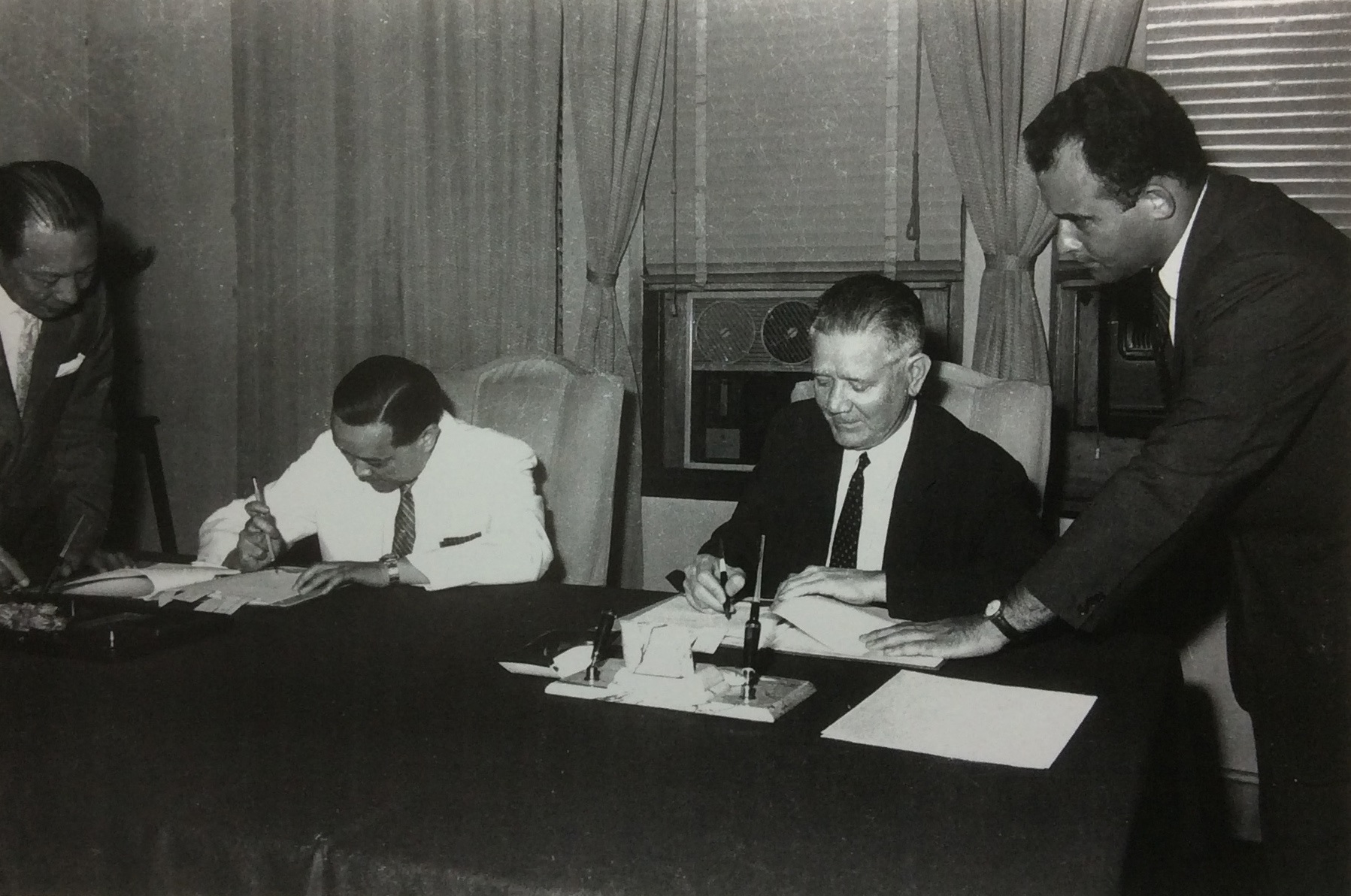 The fourth Surplus Agricultural Commodities Agreement between the R.O.C and the United States was signed at the Ministry of Foreign Affairs on August 30, 1960. According to this agreement, the R.O.C. government would purchase surplus agricultural commodities and pay the United States in New Taiwan Dollars. The United States agreed to then use those NT dollars to finance mutual defense and educational exchange programs. Foreign Minister Shen Chang-huan (left) and Ambassador to the R.O.C. Everett Drumright (right) signing the agreement.